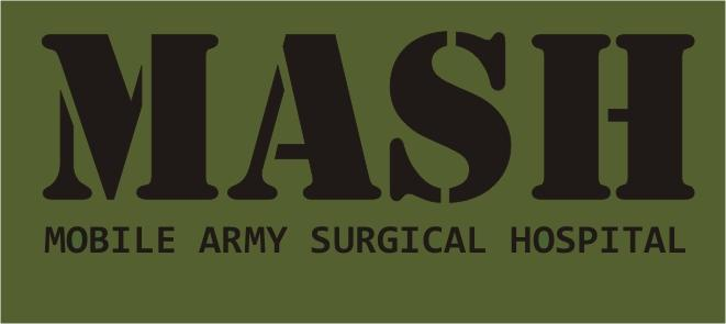 M*A*S*H logo created from file File:Mash-logo1.jpg.